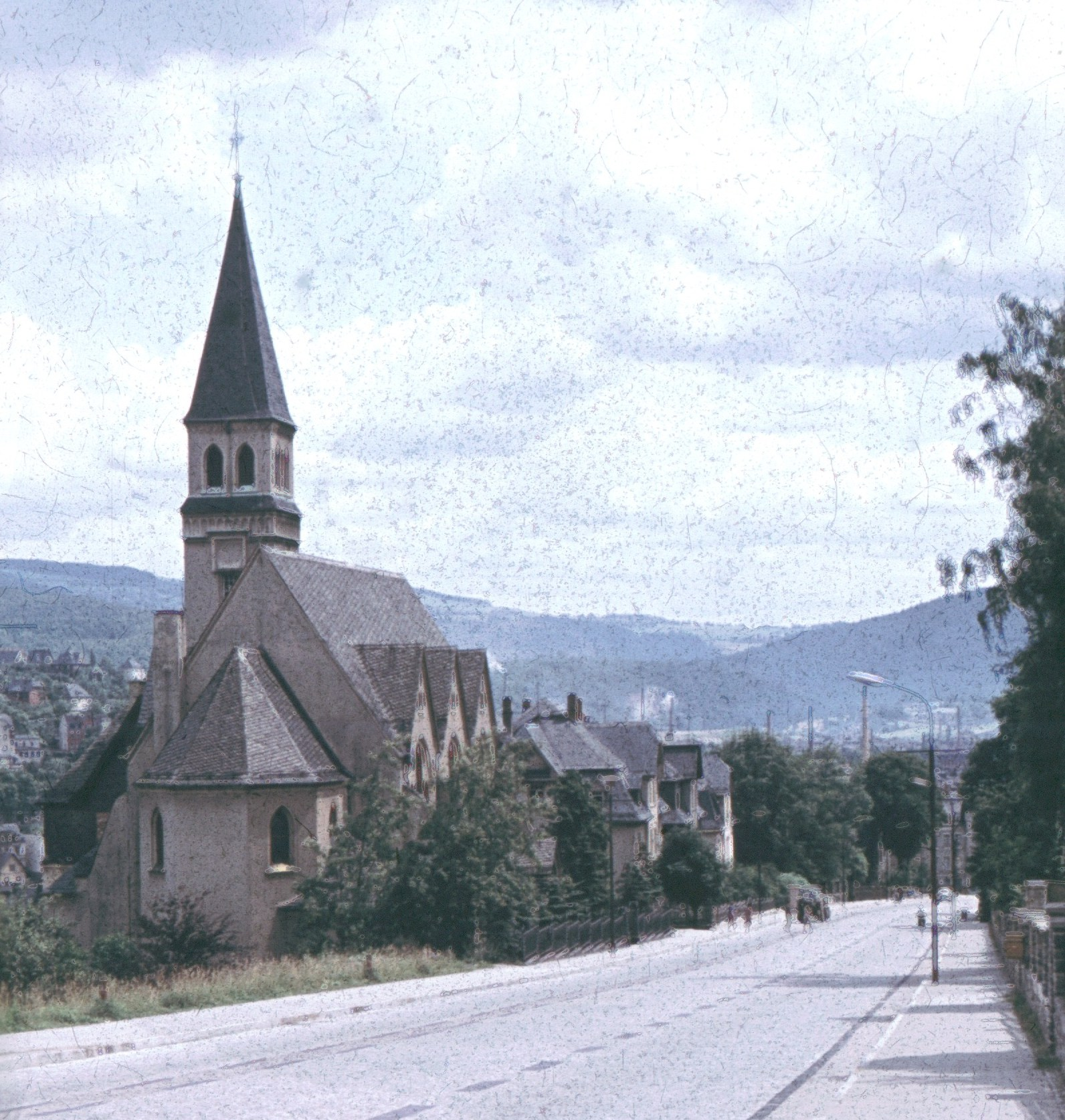 katholische Kirche „Mater dolorosa“ circa 1962; scan vom Dia